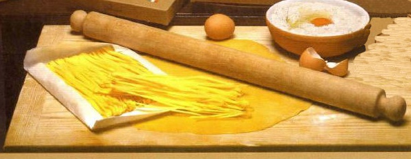 Campofilone noodle